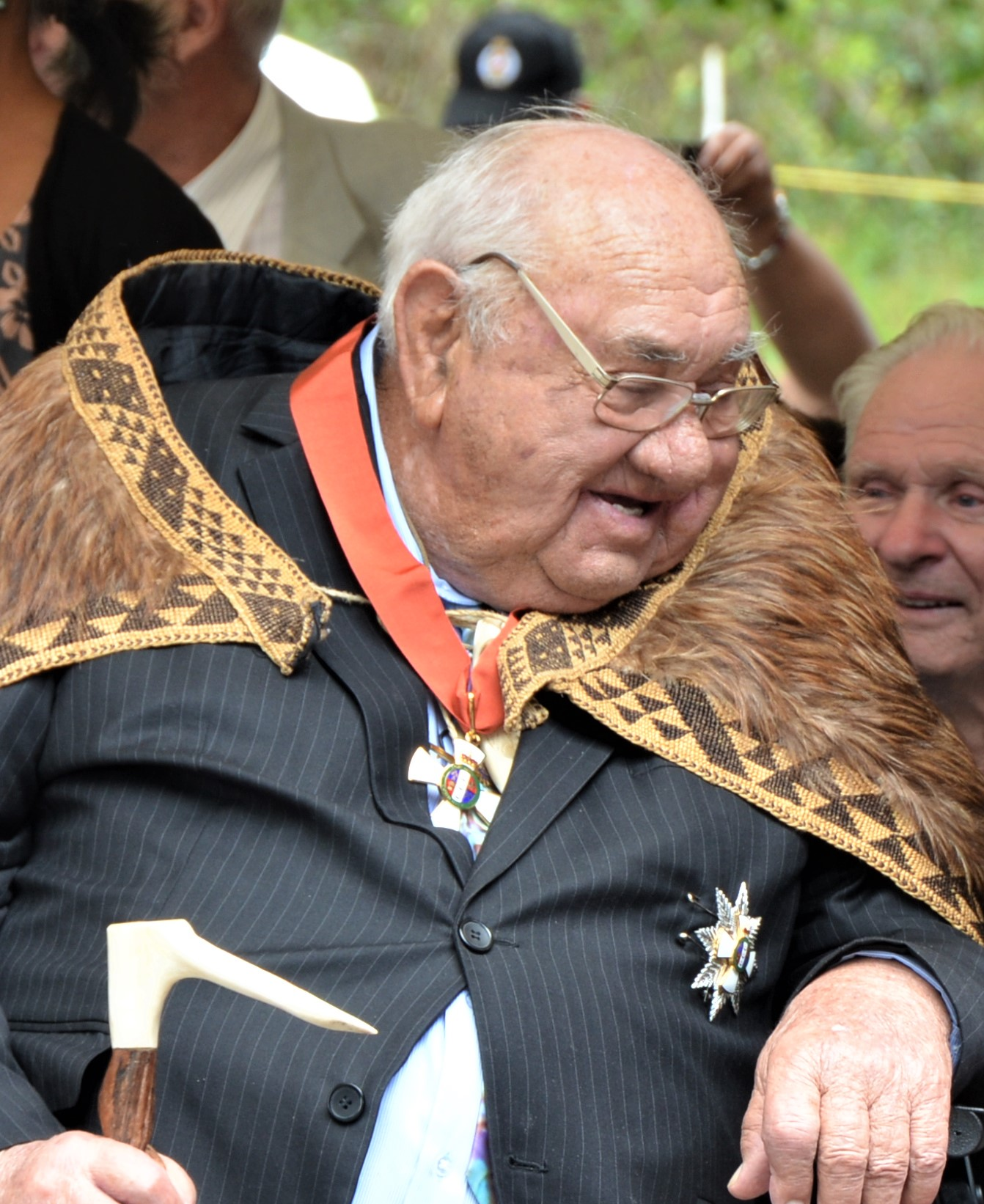 Sir Hec Busby and The Rt Hon Jacinda Ardern